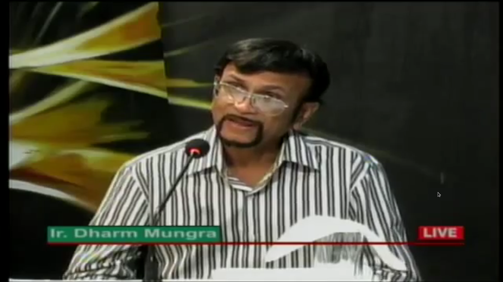 Dharm Mungra, chairman of the New Lion political party in Suriname